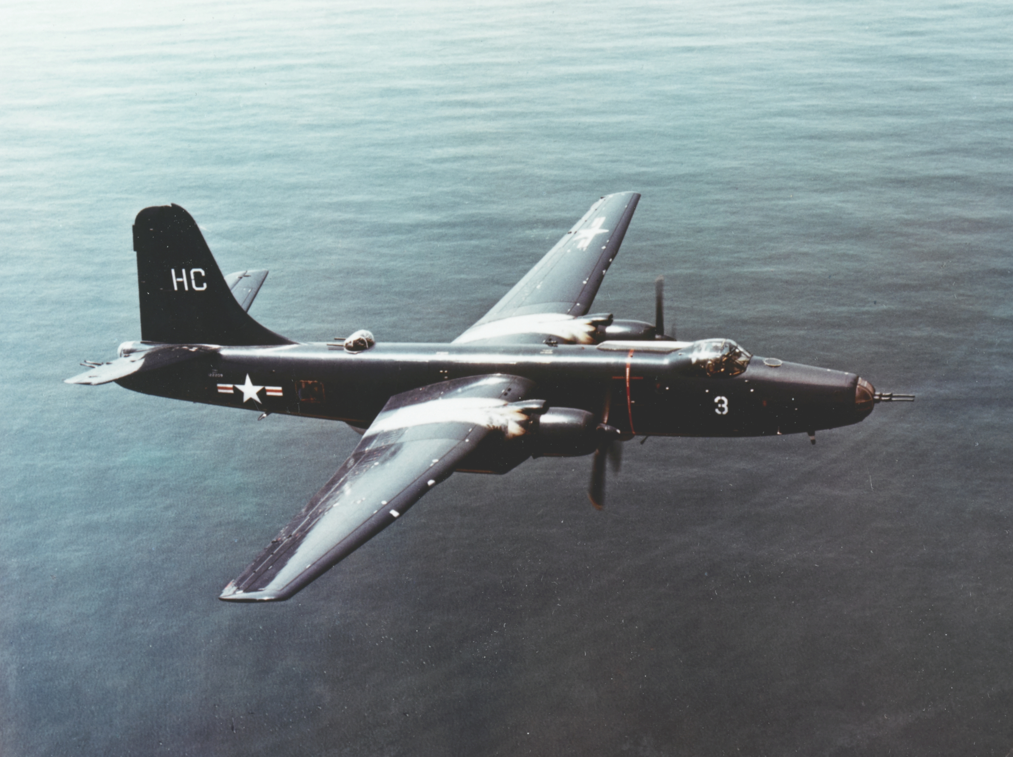 A U.S. Navy Martin P4M-1 Mercator (BuNo 122209) of Patrol Squadron 21 (VP-21) in flight over the Patuxent River, Maryland (USA). VP-21 flew the P4M-1 between June 1950 and February 1953. 122209 was later converted to a P4M-1Q. It was badly damaged by North Korean fighters off Wonsan, Korea, on 16 June 1959 and scrapped for spares.